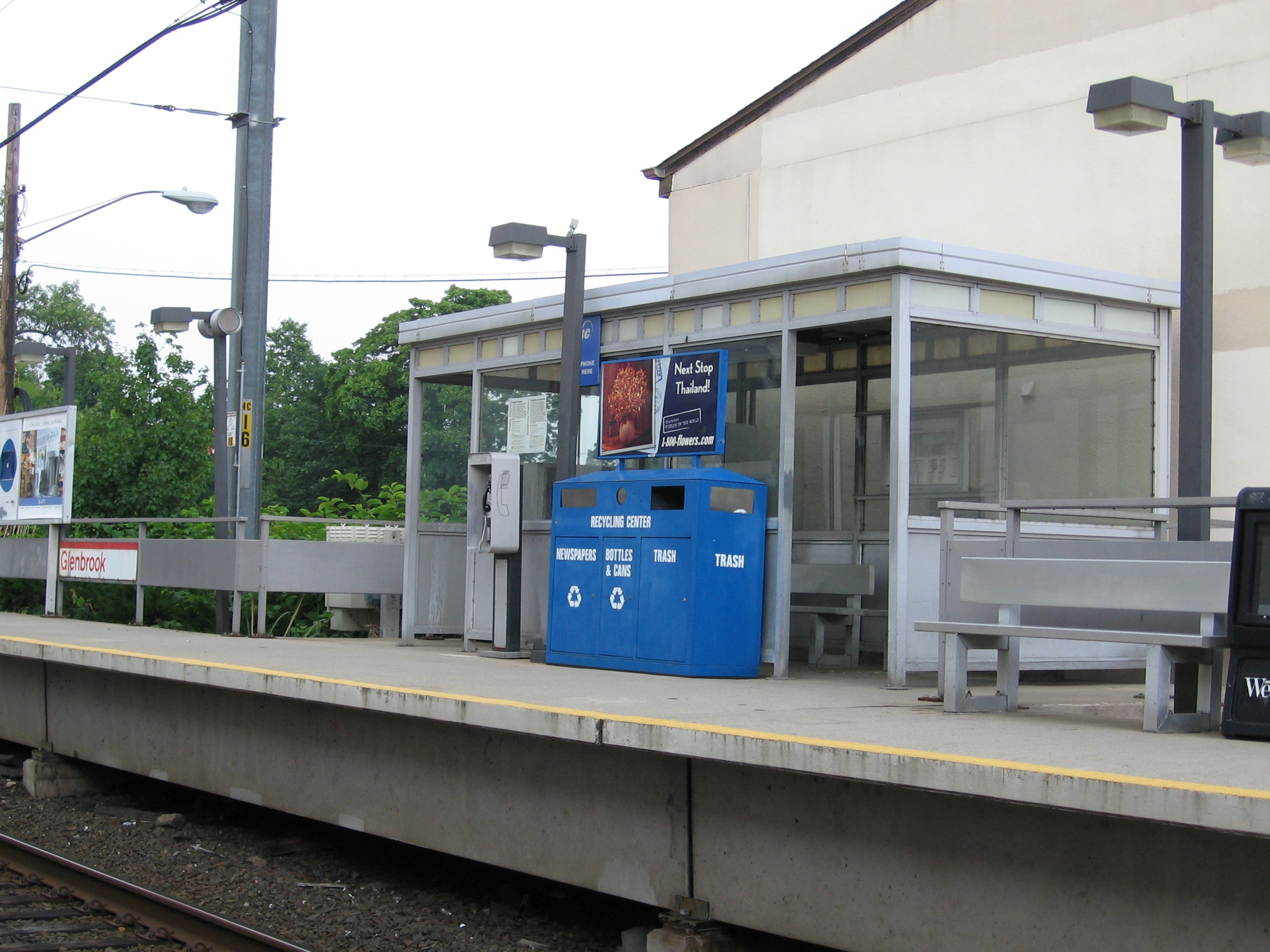 Shelter at the Glenbrook in the Glenbrook section of Stamford.